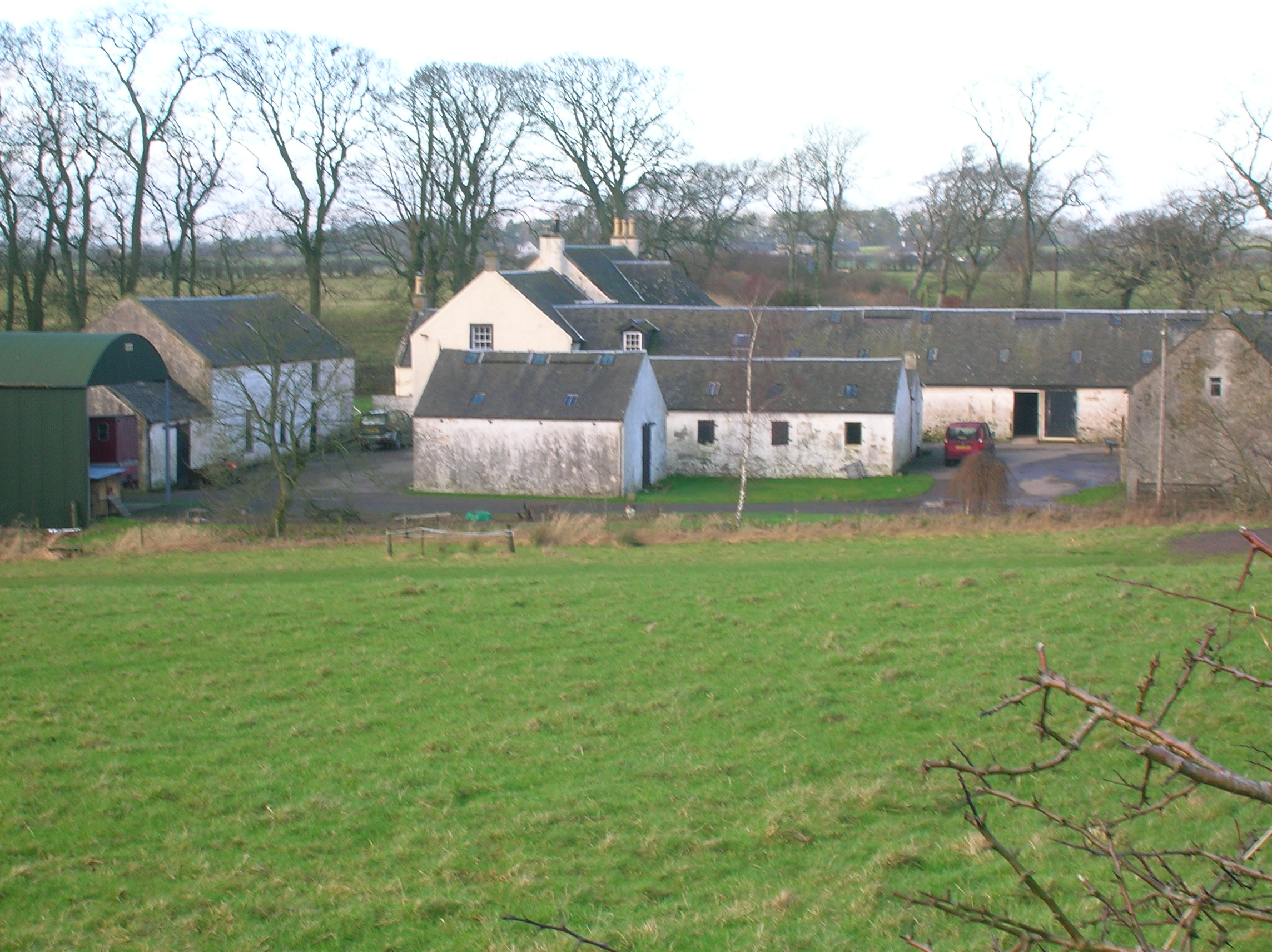 Titwood Farm, North Ayrshire, Scotland